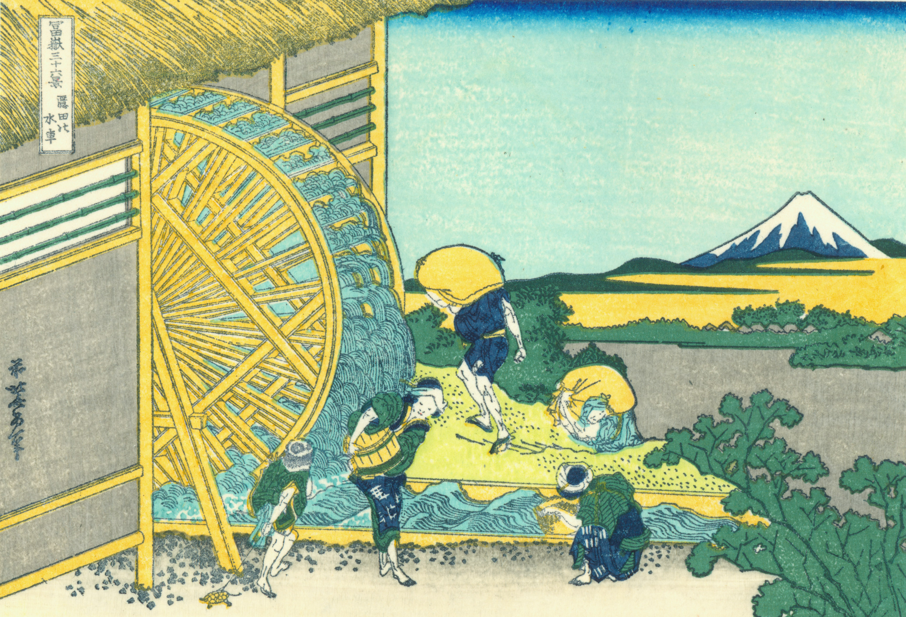 Part of the series Thirty-six Views of Mount Fuji, no. 09.